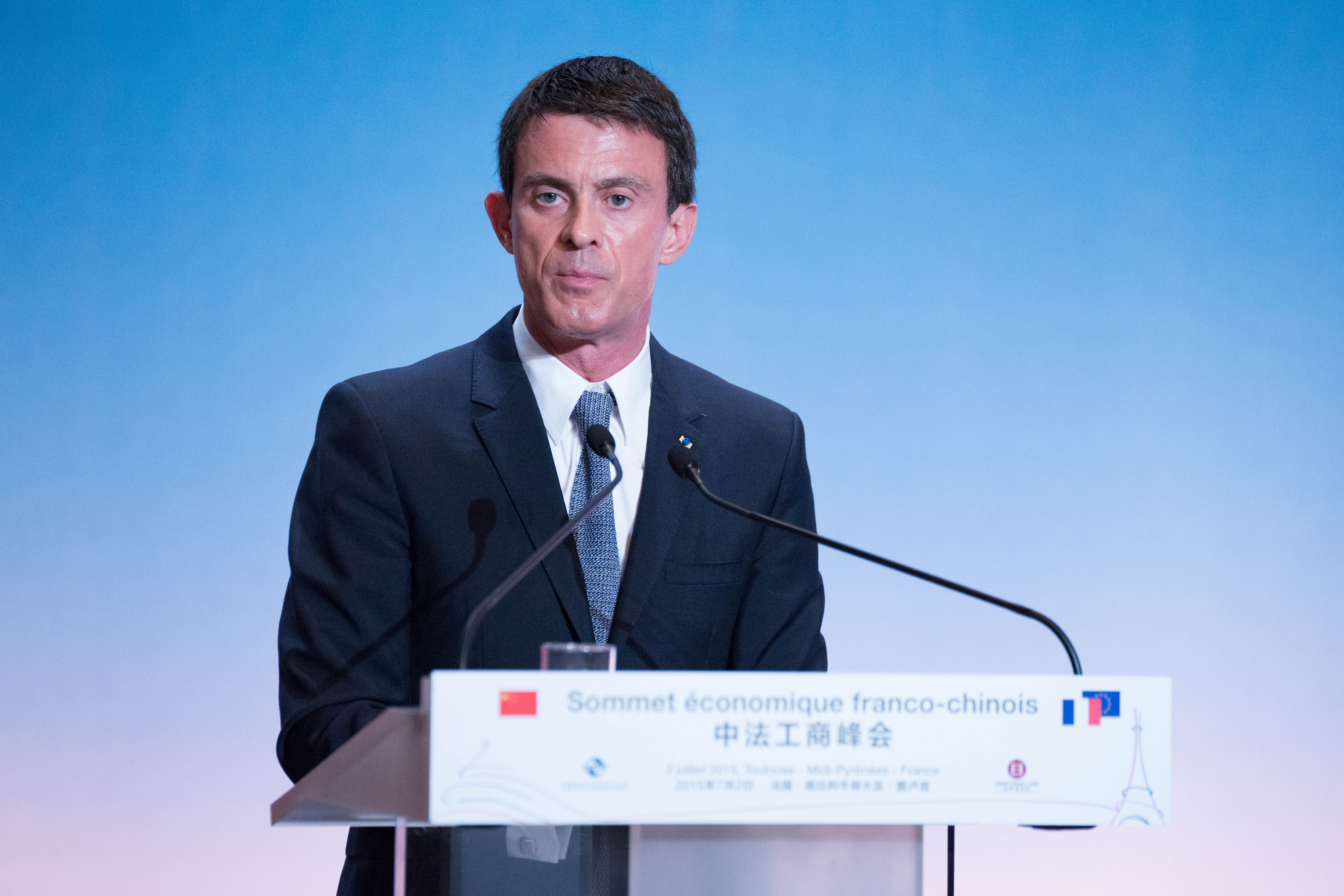 Manuel Valls at Sommet économique franco-chinois